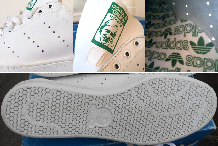 This file show four different details of the adidas stan smith: the perforated three strips, the tongue, the inner sole, and the outer sole.